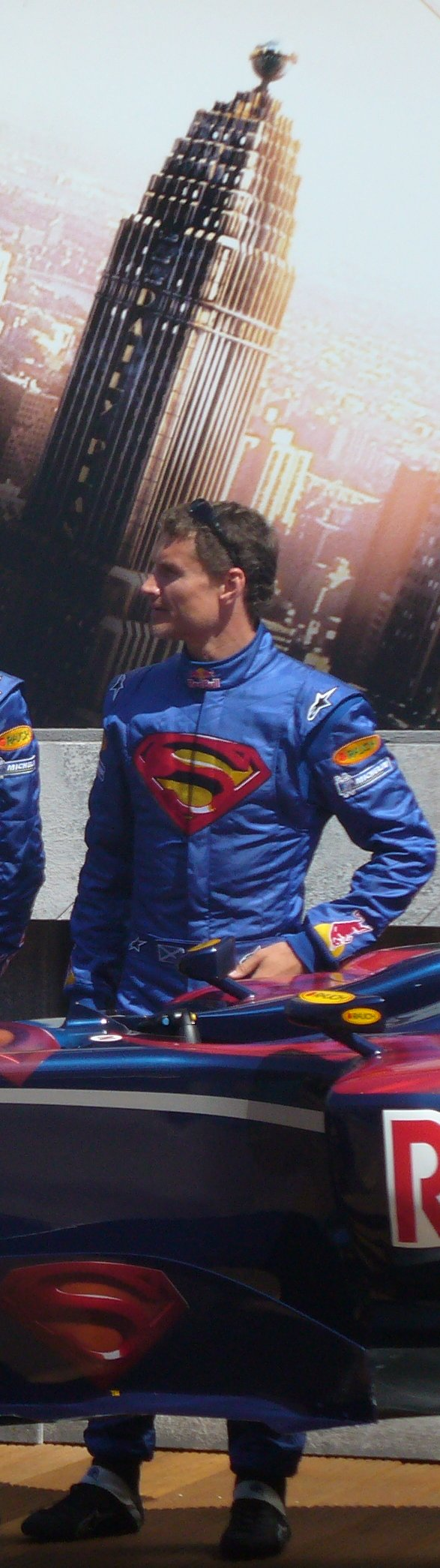 David Coulthard promoting Superman Returns at Monaco Grand Prix, 2006.